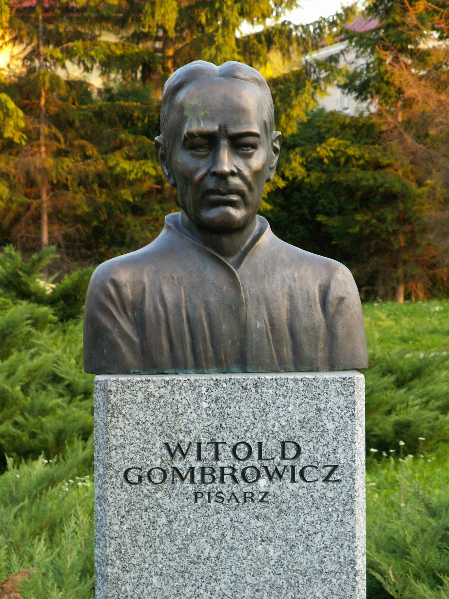 Bust of Witold Gombrowicz in Celebrity Alley in Kielce (Poland)